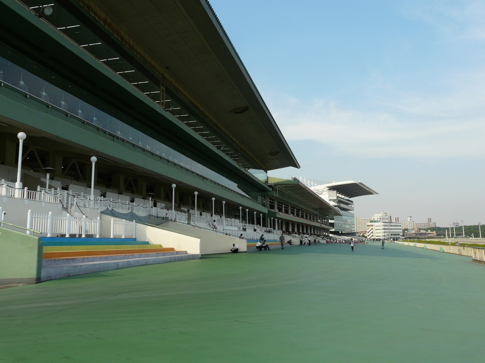 Ohi_Racecourse_002